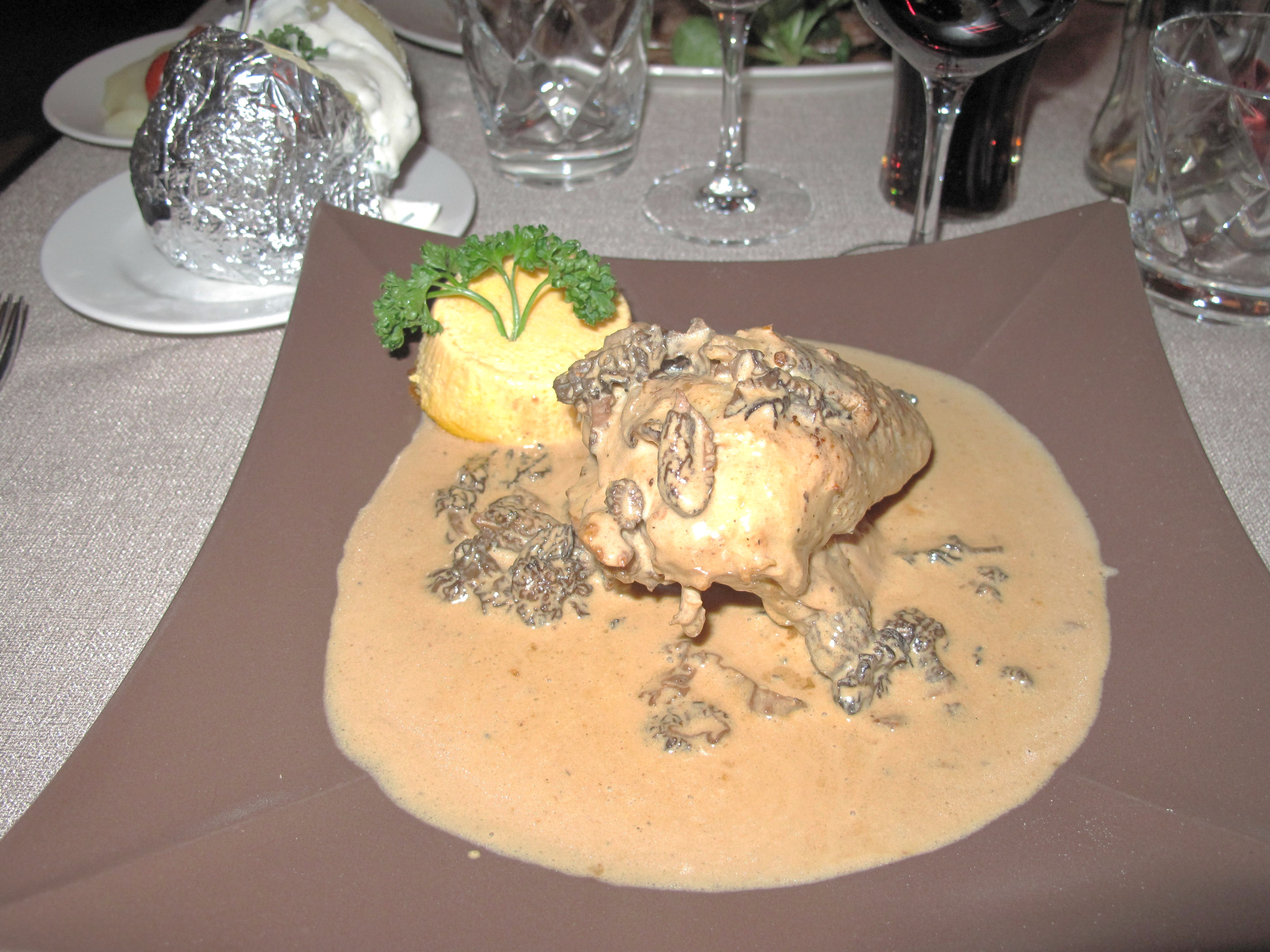 Traditional recipe Poulet aux morilles (=Chicken with morchellas) in the restaurant "la Flambée" of the "Village Motel" in Tournus (Saône-et-Loire, France).